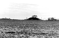 Roadside view of mounds at the Jaketown Site, located along Mississippi Highway 7 north of Belzoni in Humphreys County, Mississippi, United States. The site has been declared a National Historic Landmark.